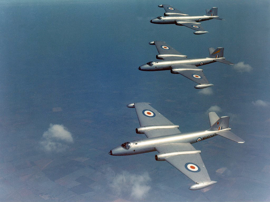 Canberra B.2 (WH924)